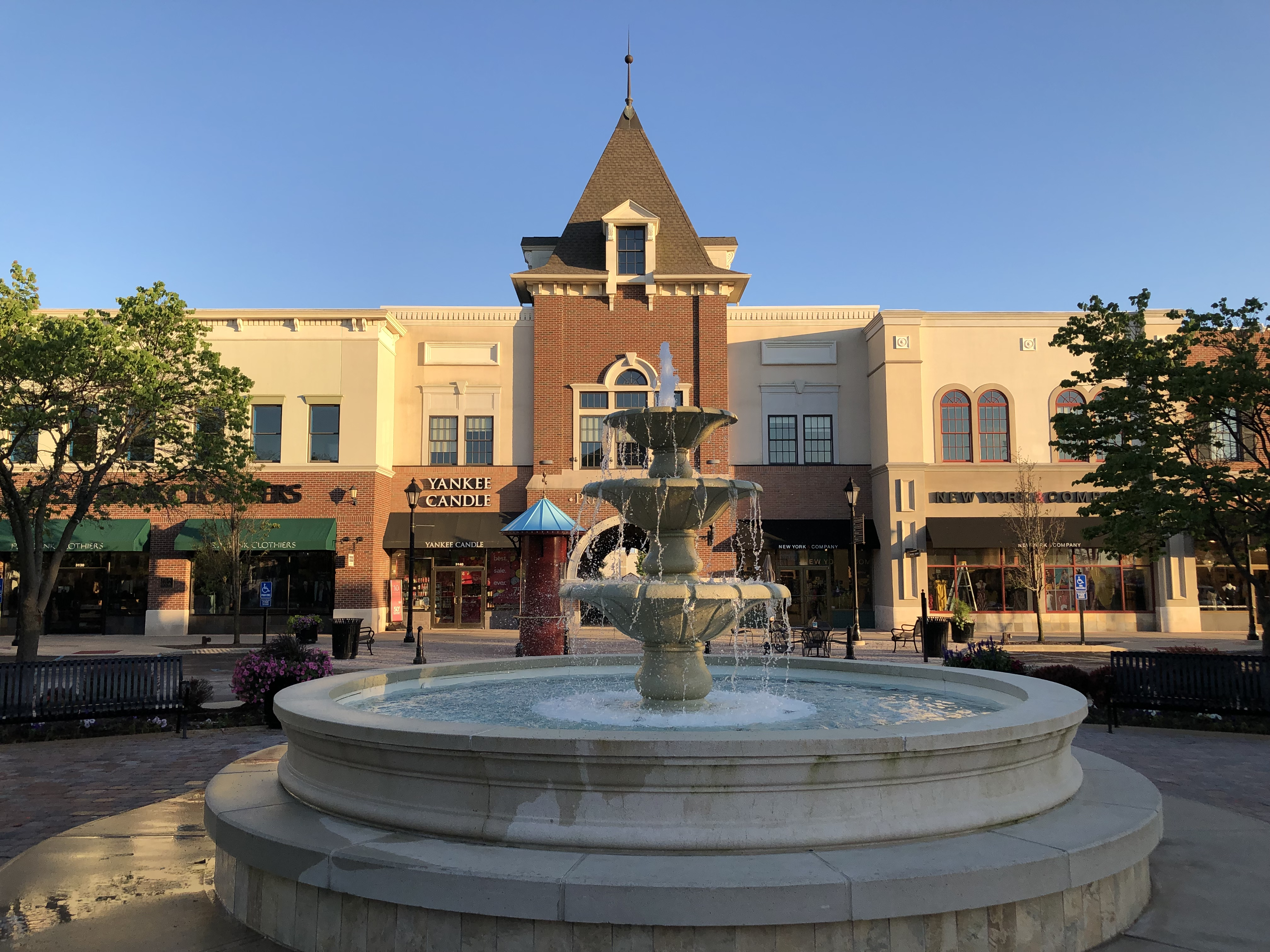 The Levis Commons Fountian